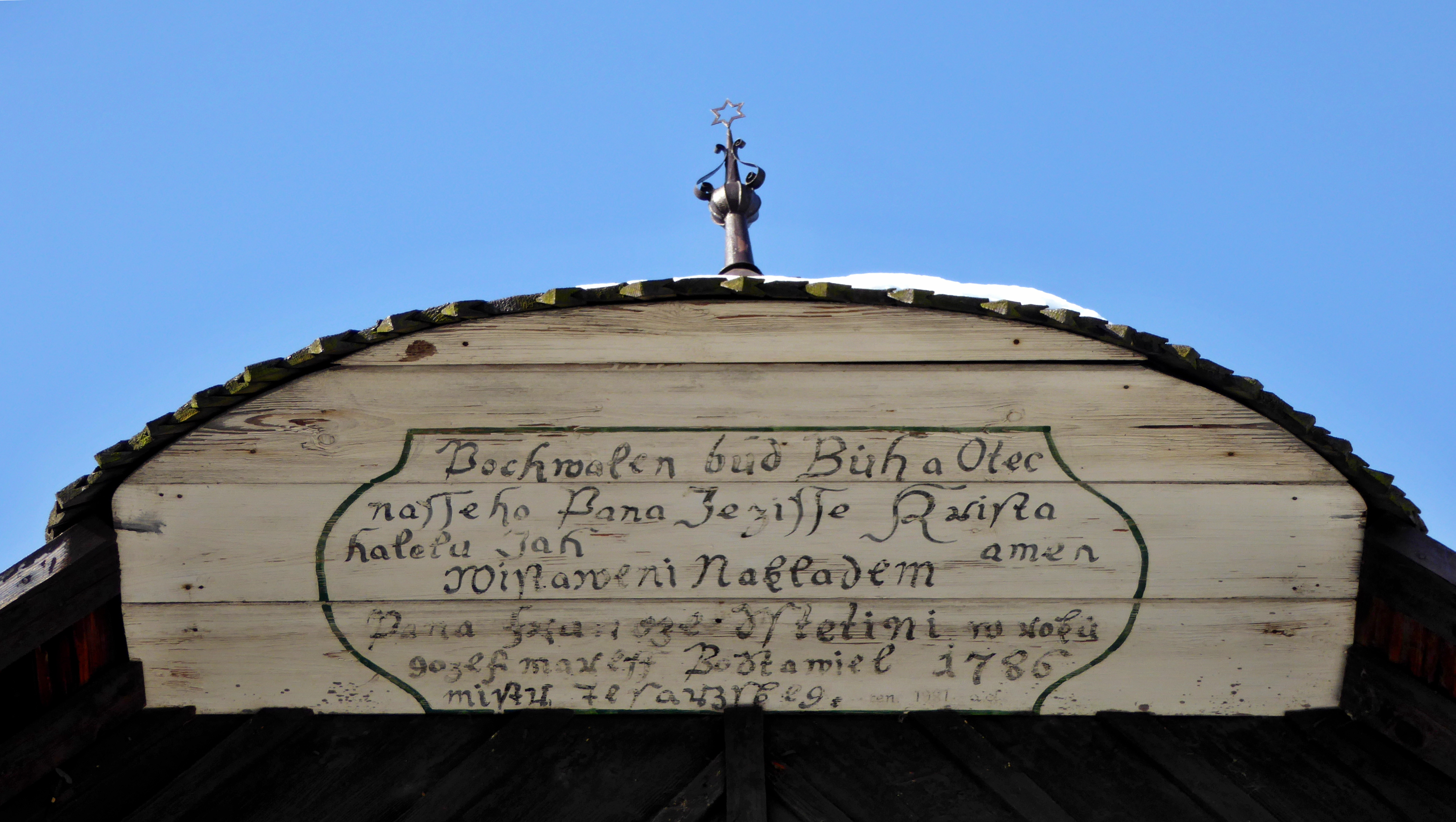 In the cadastral area of Dřevíkov is small hamlet of Veselý Kopec site with objects of folk architecture in the exposition of the open-air museum, is part of the Set of Folk Buildings Vysočina. Several historical monuments of folk architecture also in the hamlet of Dřevíkov, such as timbered cottages and Jewish monuments. In the photo is part of the timbered cottage No. 26 with the inscription, refers to the original owner with name "František Štětina". He is also the main character of the story "How did they play about King Wenceslas" (czech: Jak hráli o králi Václavu), the author is Karel Václav Rais (1859–1926), writer and in the years 1877 - 1882 teacher at school in small town with name "Trhová Kamenice". In his work, the author devoted himself to the life of people in the southeastern part of the Iron Mountains, for example a short story with name "Špačci" or "Z vlasařských pamětí" and also in a book called West (czech: Západ). Photo location: Czechia, Pardubice Region, municipality Vysočina, hamlet of "Dřevíkov", "Stružinecká" knoll hill. Source of information: The Set of Folk Buildings Vysočina – exposition open-air museum Merry Hill (czech: Veselý Kopec) see